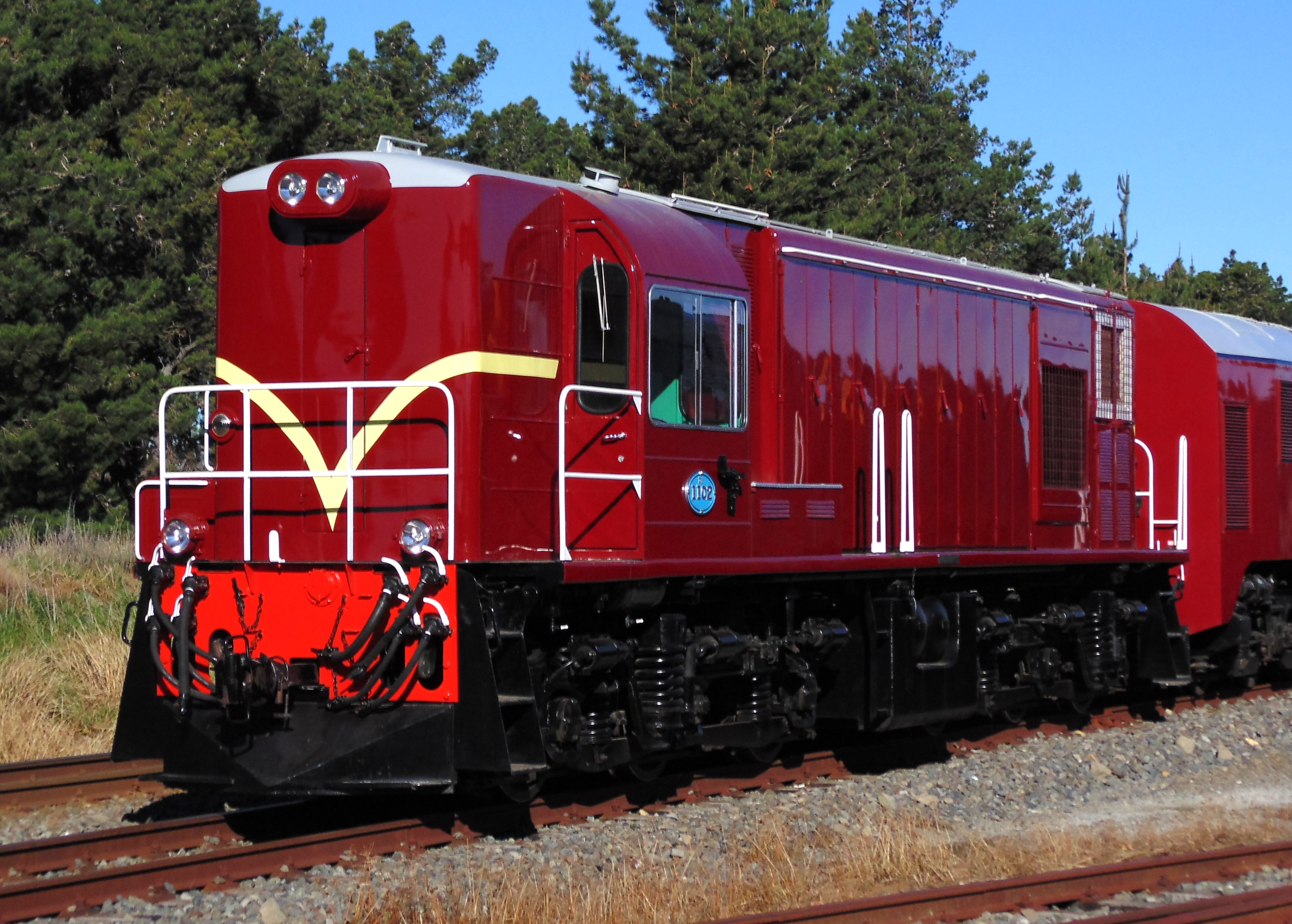 Di 1102 at Waipara after being delivered to the Weka Pass Railway